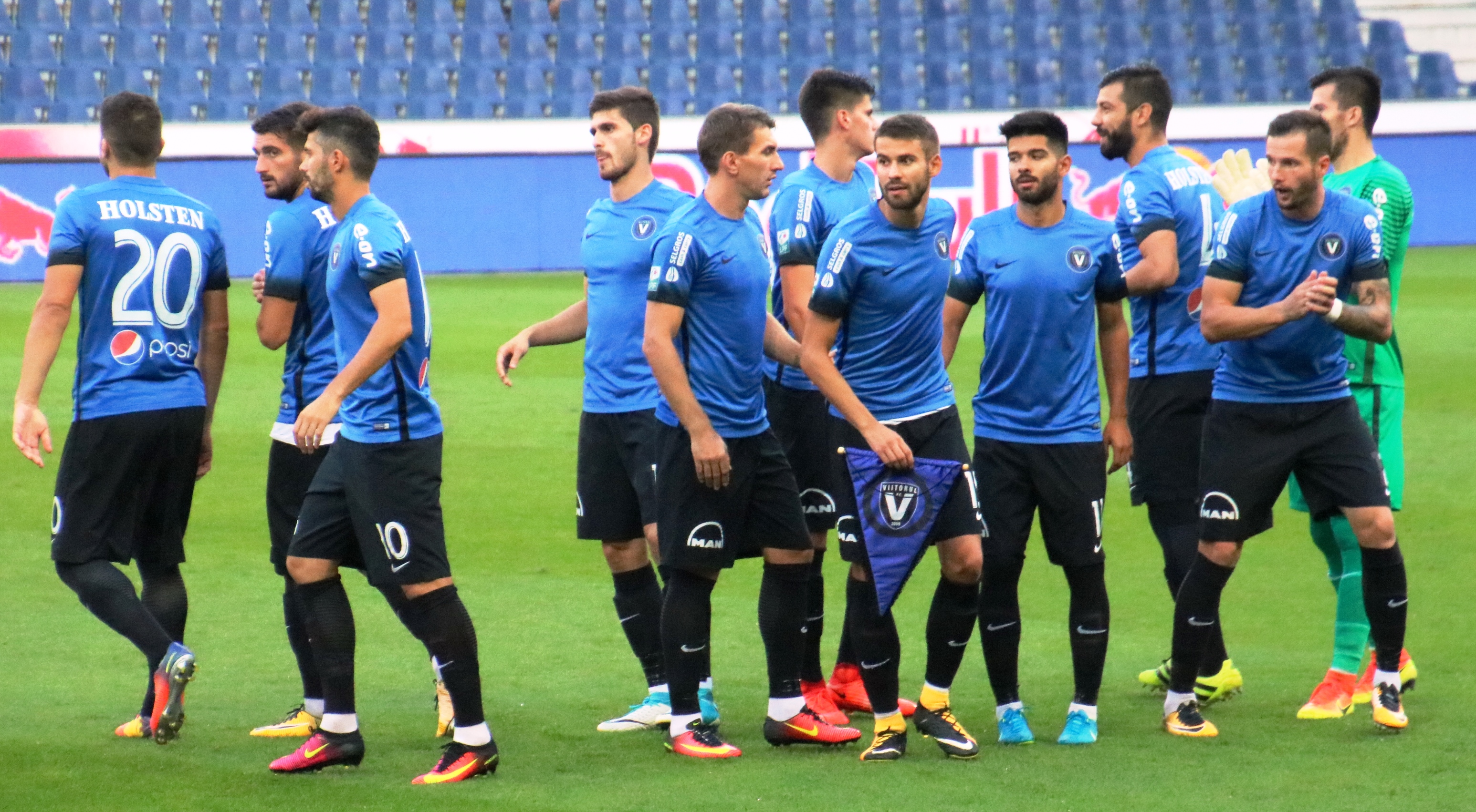 Euroleague play off 2nd leg